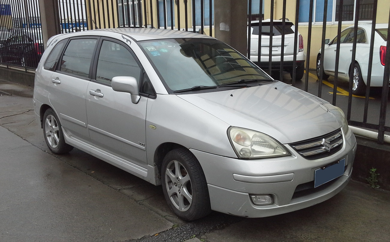 Suzuki Liana hatch facelift photographed in Shanghai, China.